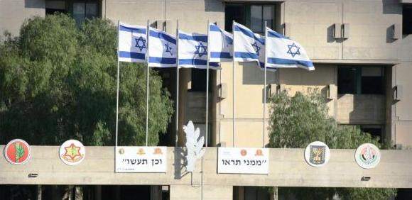 Israeli flags, icons of the Israel Defense Forces and the motto "I see and do" mounted on the front of Bahad 1, a military school for officers located in Camp Laskov, near Mitzpe Ramon, Israel.